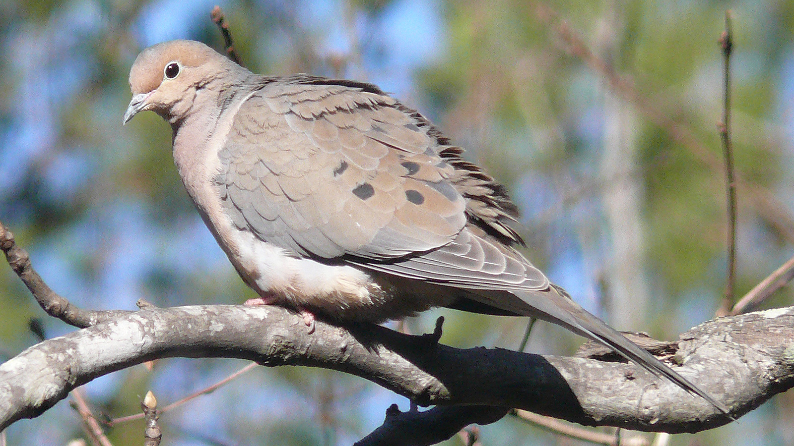 A Mourning Dove (Zenaida macroura) perched on a tree branch. Photo taken with a Panasonic Lumix DMC-FZ50 in Johnston County, North Carolina, USA.